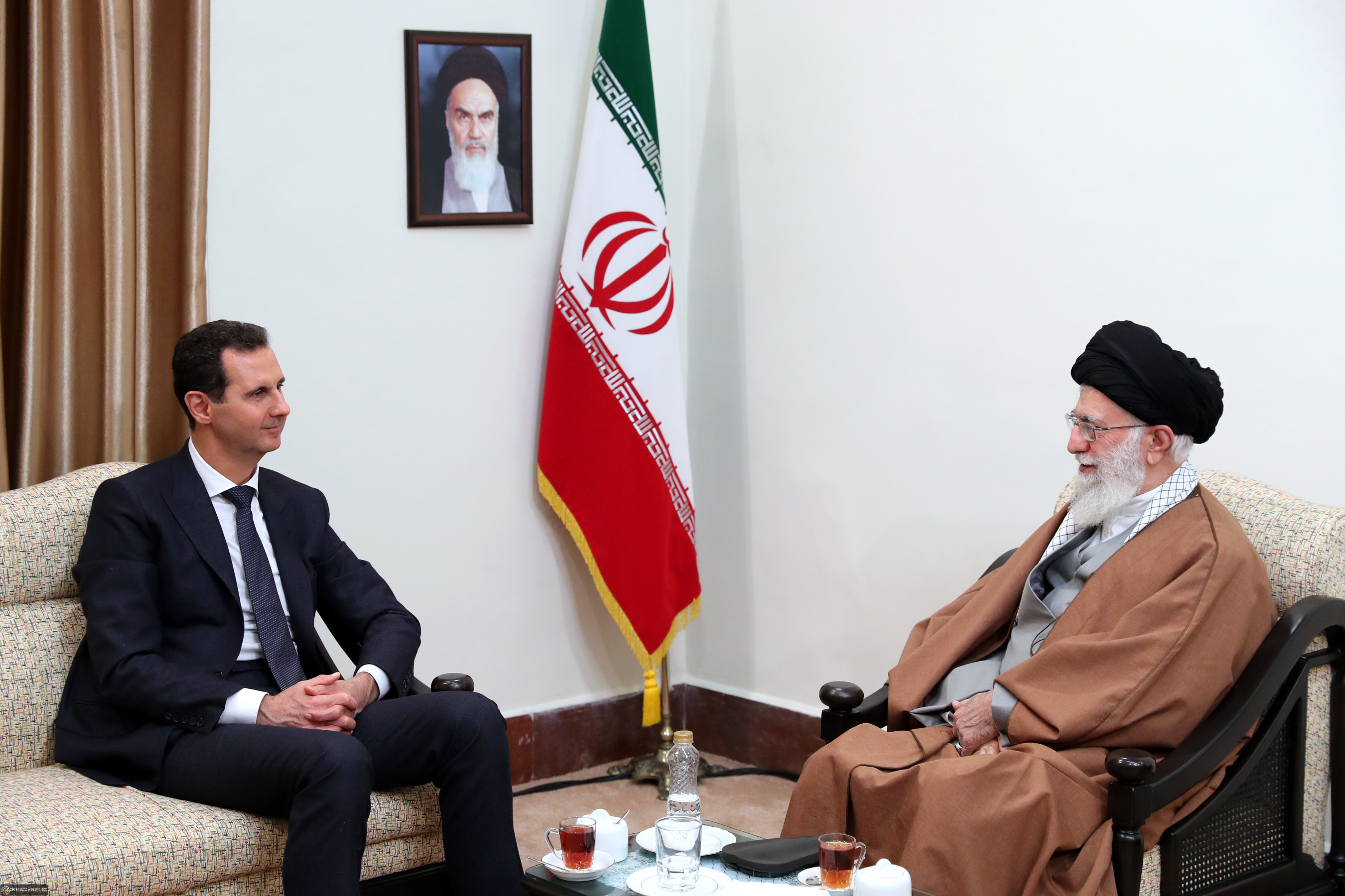 Ayatollah Ali Khamenei meets with Bashar al-Assad in Tehran, 25 Feb 2019